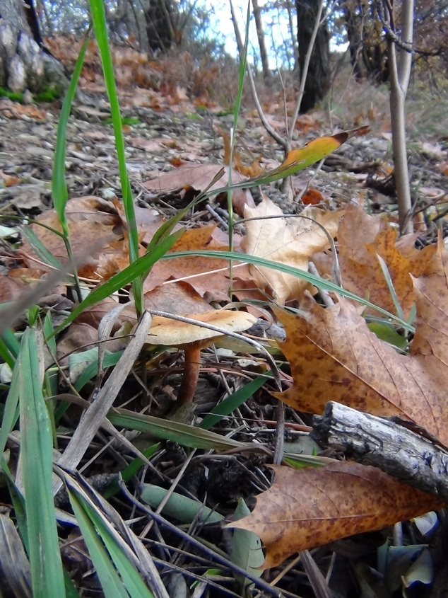 Nature reserve Máslovická stráň in Prague-East District, Czech Republic